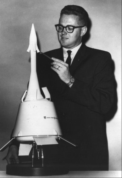 Using a model at upper left, William Rector of General Dynamics Corp. describes the design his company proposed for the Apollo circumlunar mission (1960-61 feasibility study)